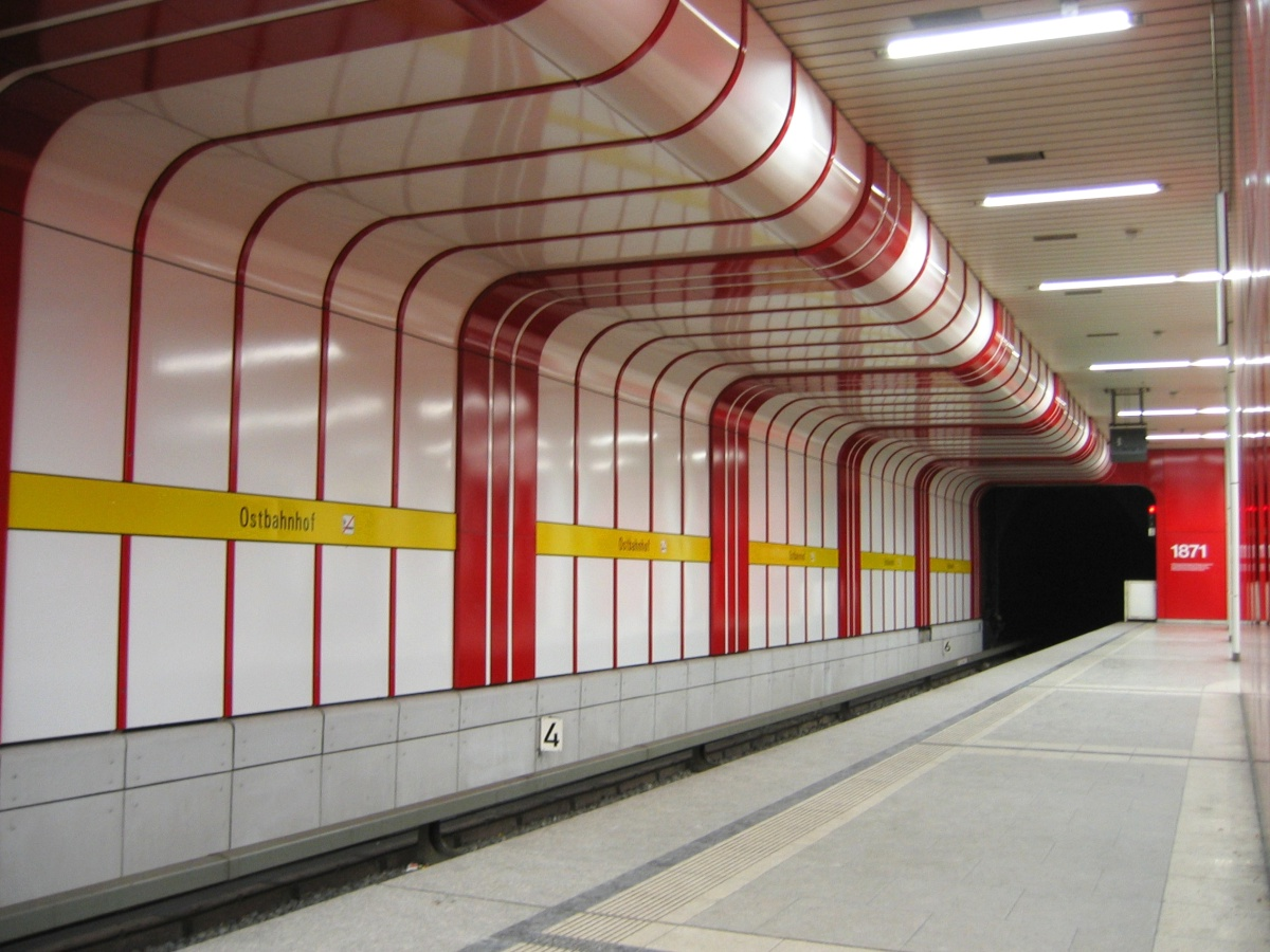 Munich subway station Ostbahnhof